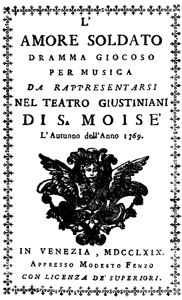 Alessandro Felici - L’amore soldato - titlepage of the libretto - Venice 1769